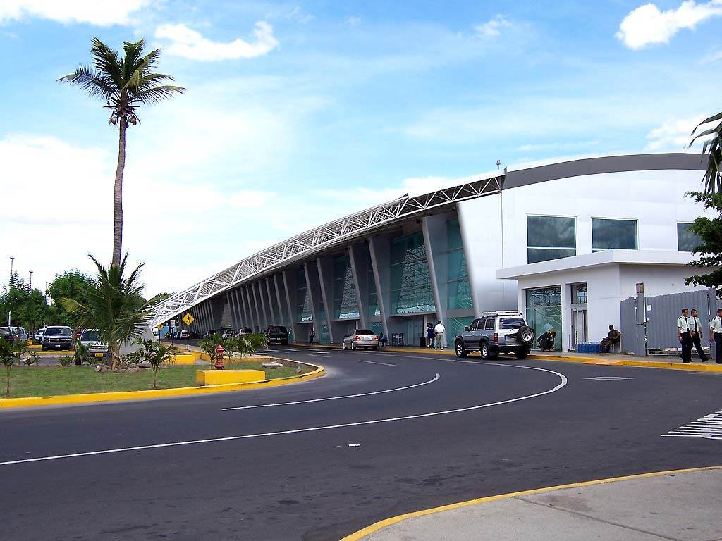 The Augusto Sandino International Airport in Managua. Took this picture before my flight in May, heading to Bluefields.